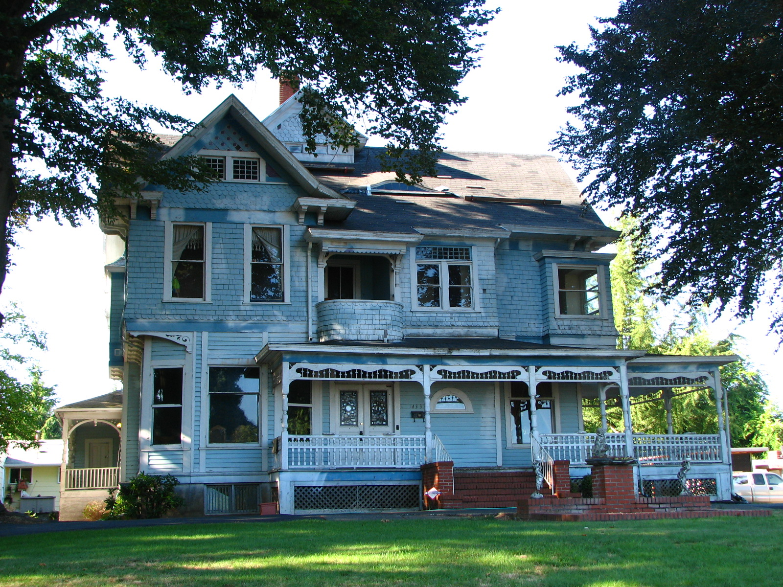 The historic John Mock House (built 1892), located at 4333 North Willamette Boulevard in Portland, Oregon, United States, is listed on the US National Register of Historic Places.